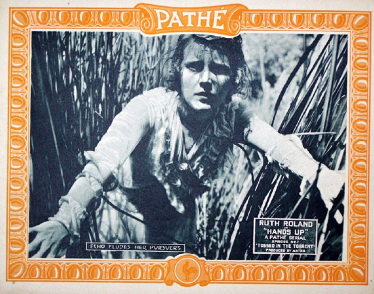 Hands Up! is a 1918 American adventure film serial directed by Louis J. Gasnier and James W. Horne. This is a lobby card for chapter 7 "Tossed Into the Torrent" with actress Ruth Roland, with the caption "Echo eludes her pursuers."